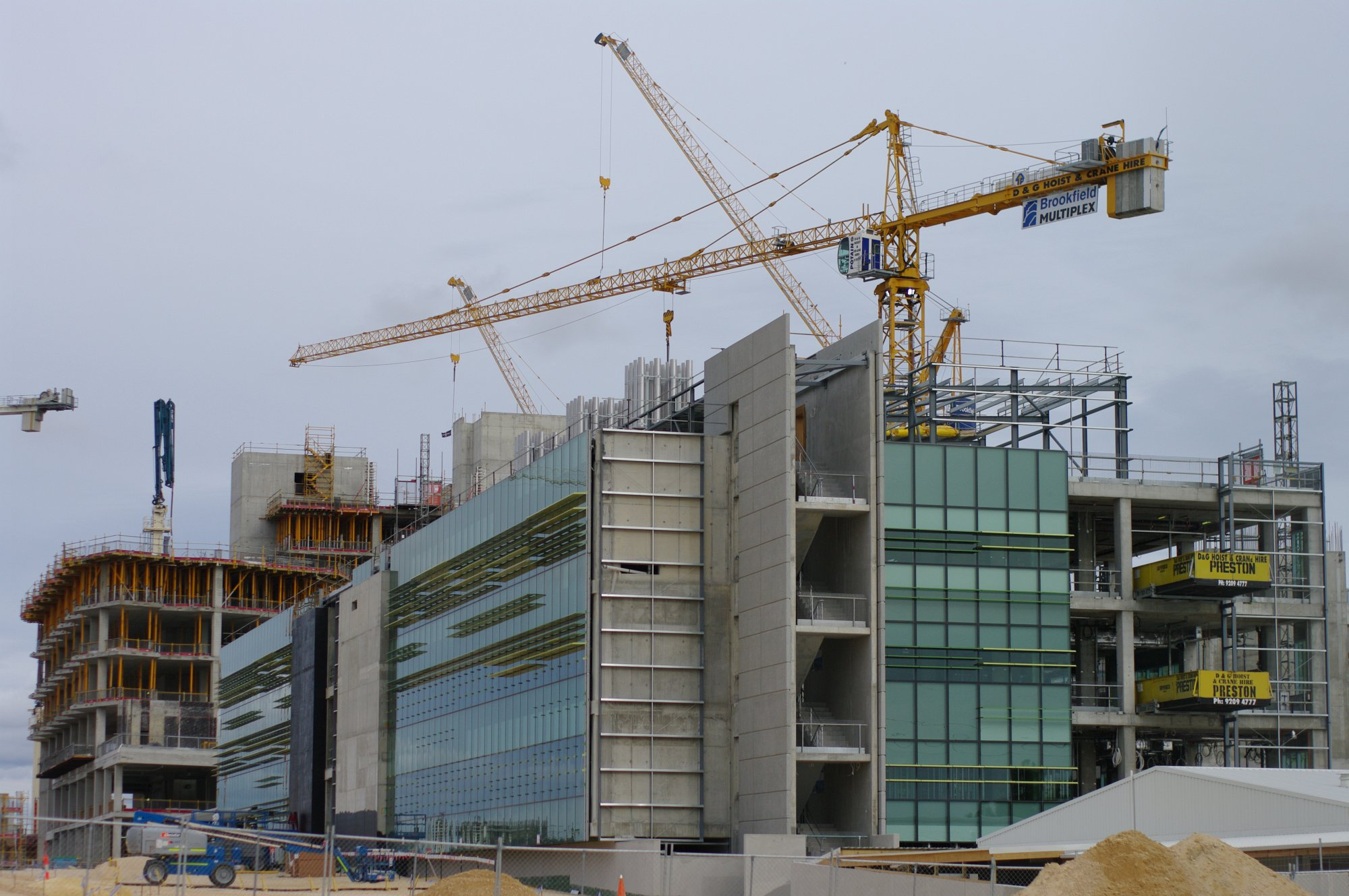 Fiona Stanley hospital under construction